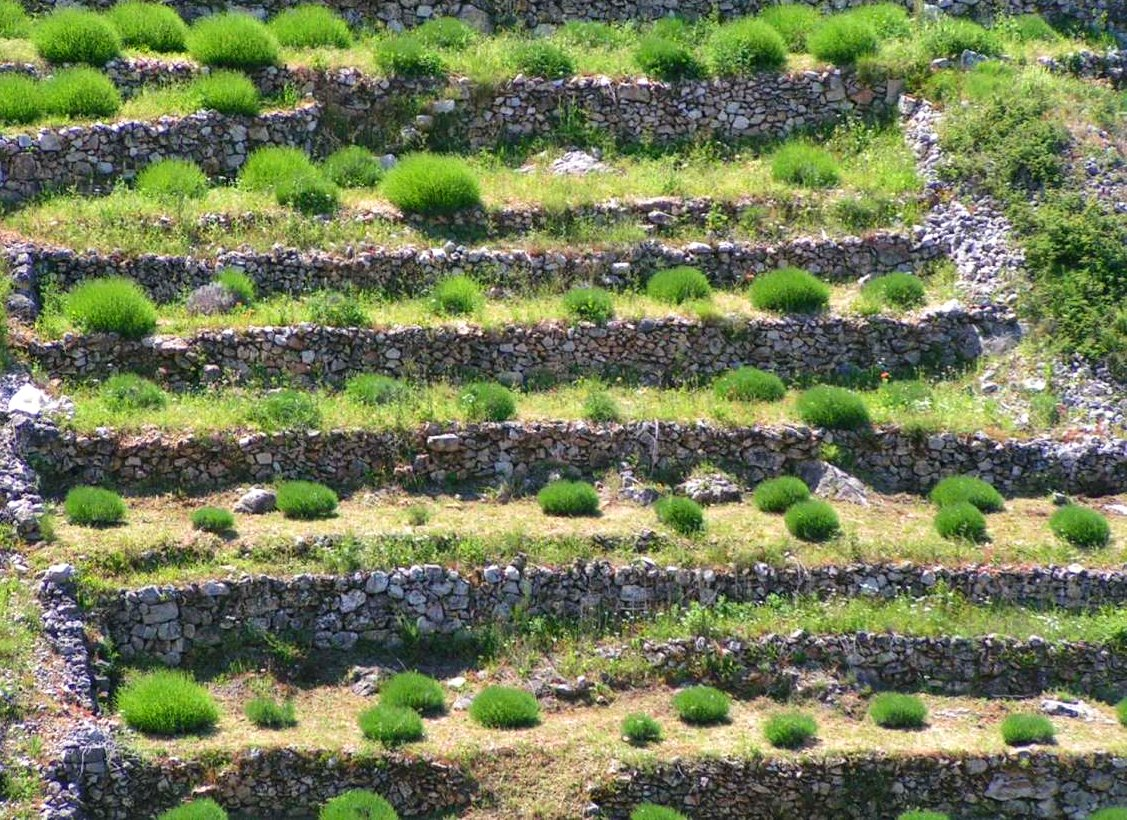 Field of lavender - Hvar.